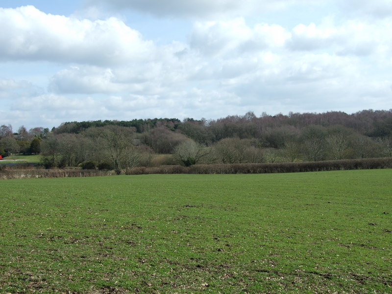 Monmouth's Ash, Horton Heath This is a general view towards Monmouth's Ash, as there is no closer access. In 1685 the Duke of Monmouth, after being defeated at Sedgemoor, was found hiding beneath an ash tree, in a ditch on Horton Heath. He was later beheaded on the 15th July on Tower Hill, London. The spot is known to this day as Monmouth's Ash and although there is still an ash tree there, this is probably not the same one.